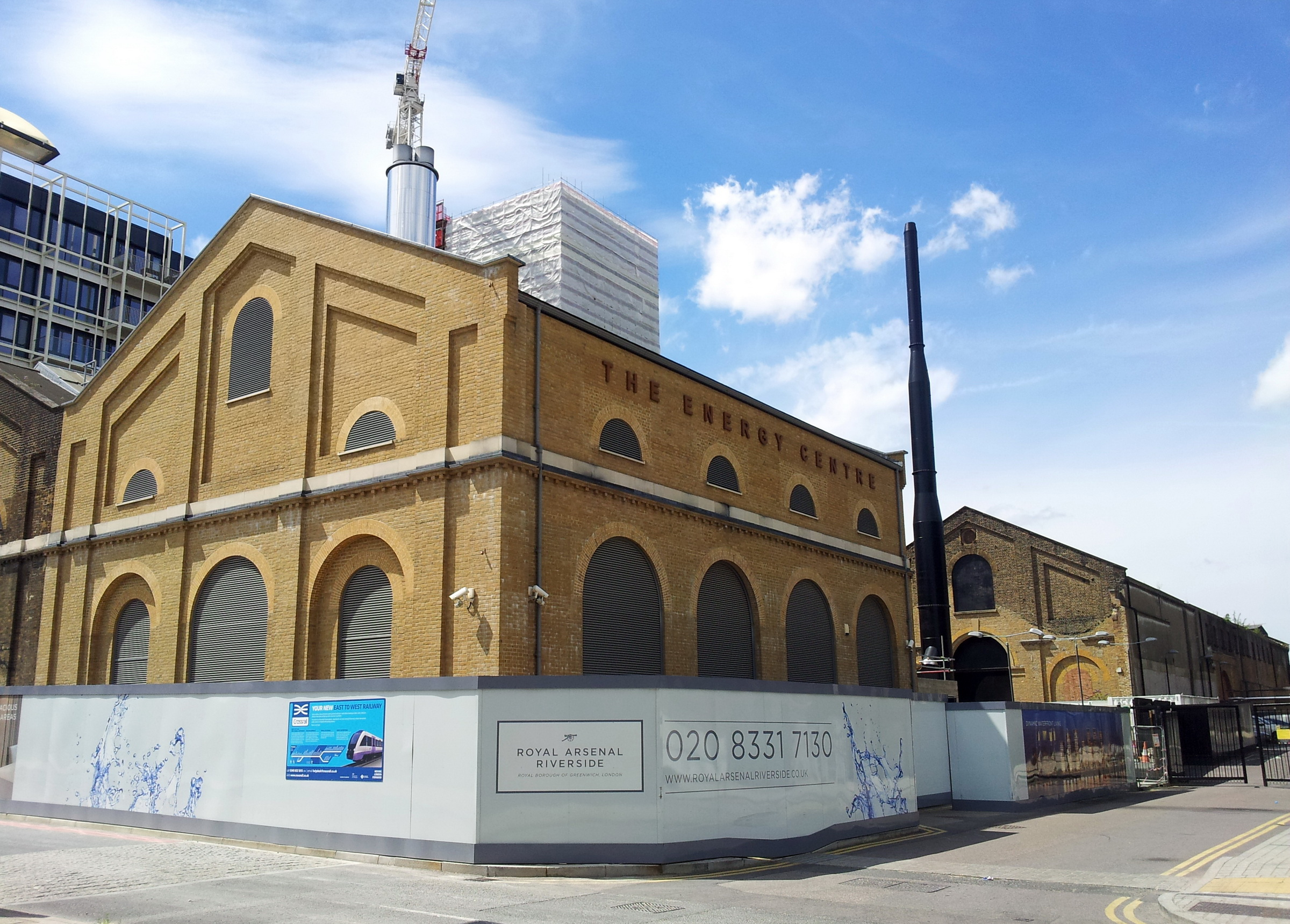 View of old and new warehouses along Arsenal Way in Royal Arsenal Riverside, Woolwich, South East London.